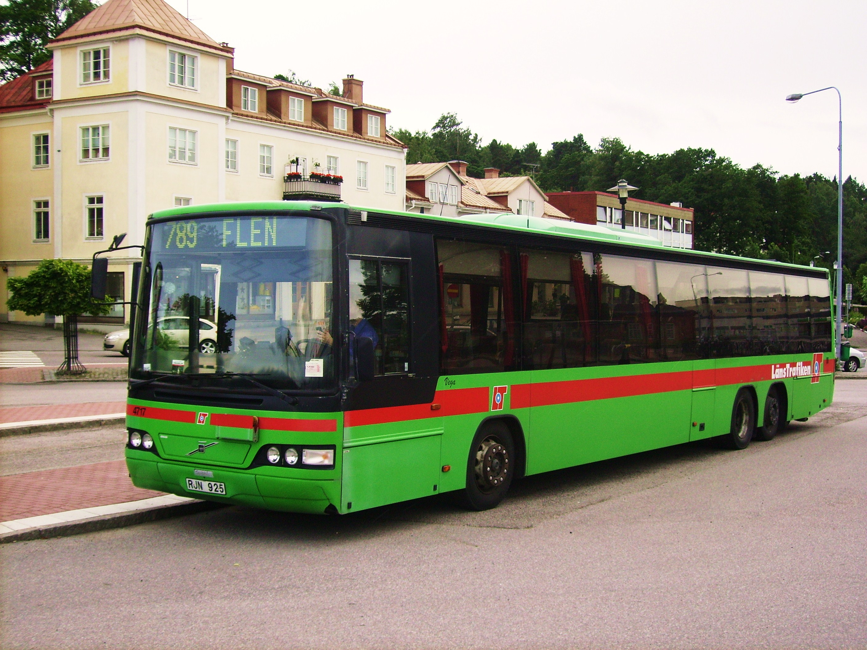 Picture of a bus beloning to LänsTrafiken i Sörmland. Carrus Vega bus (#4717, reg. RJN 925) with Volvo B10BLE 6x2 chassis in Sweden.